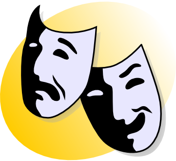 Culture Portal Icon yellow